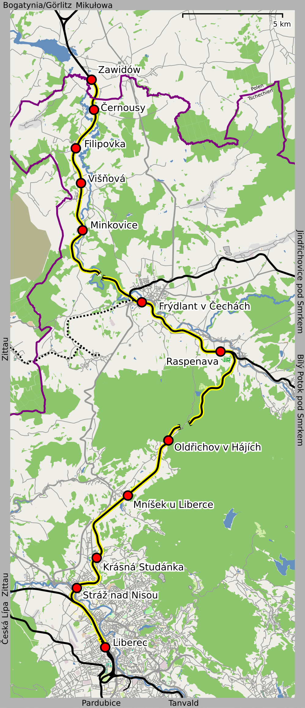 This map the Liberec–Zawidów railway was created from OpenStreetMap project data, collected by the community.This map may be incomplete, and may contain errors. Don't rely solely on it for navigation.